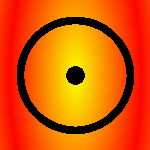 Astrological symbol of sun. Own work